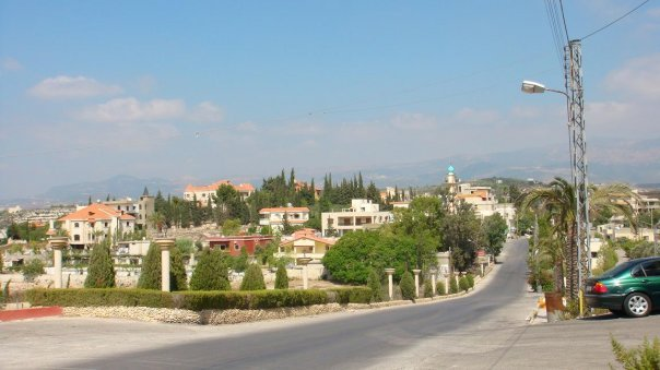 Village of Anqoun from West Side